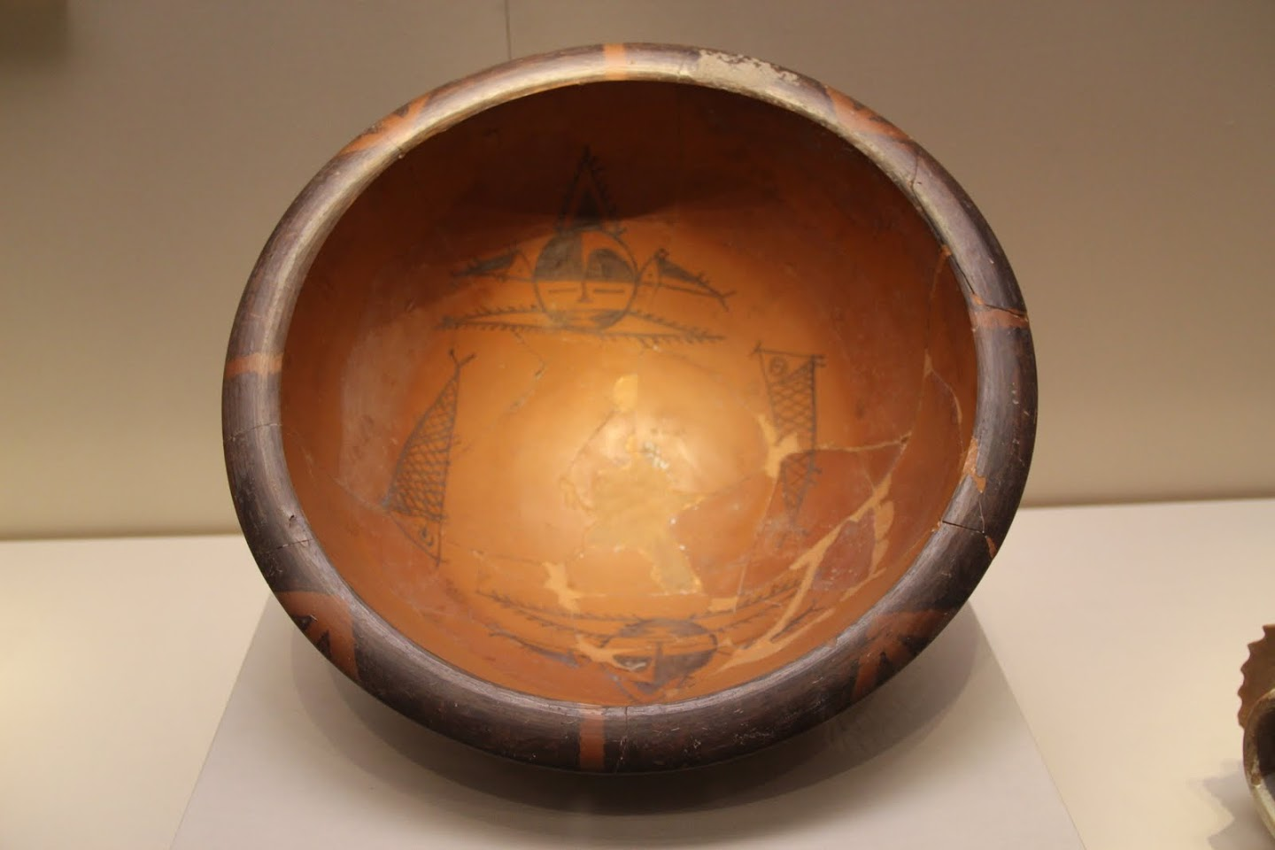 Banpo basin with human face (or mask) and fish designs. Yangshao culture, Banpo type, 16.5 cm tall, 39.5 cm mouth diameter. Excavated from a Banpo site in Xi'an city, in 1955, Shhaanxi province. National Museum of China. Ref : Chinese Ceramics : From the Paleolitic Period to the Qing Dynasty, edited by Li Zhiyan, Virginia L. Bower, and He Li. Yale University and Foreign Langage Press 2010. Page 54